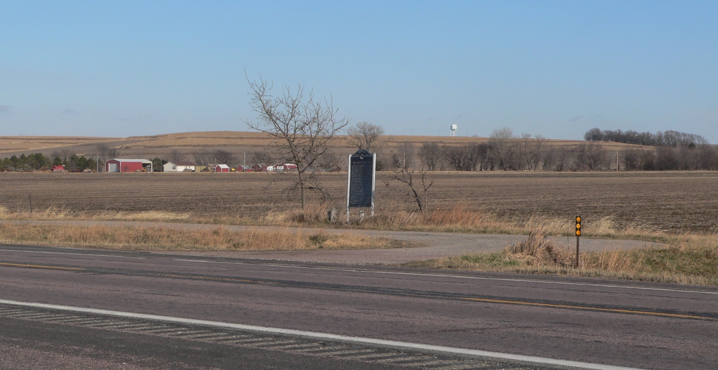 Historical marker on east side of U.S. Highway 77 south of Oakland, Nebraksa, describing the nearby Logan Creek archaeological site.